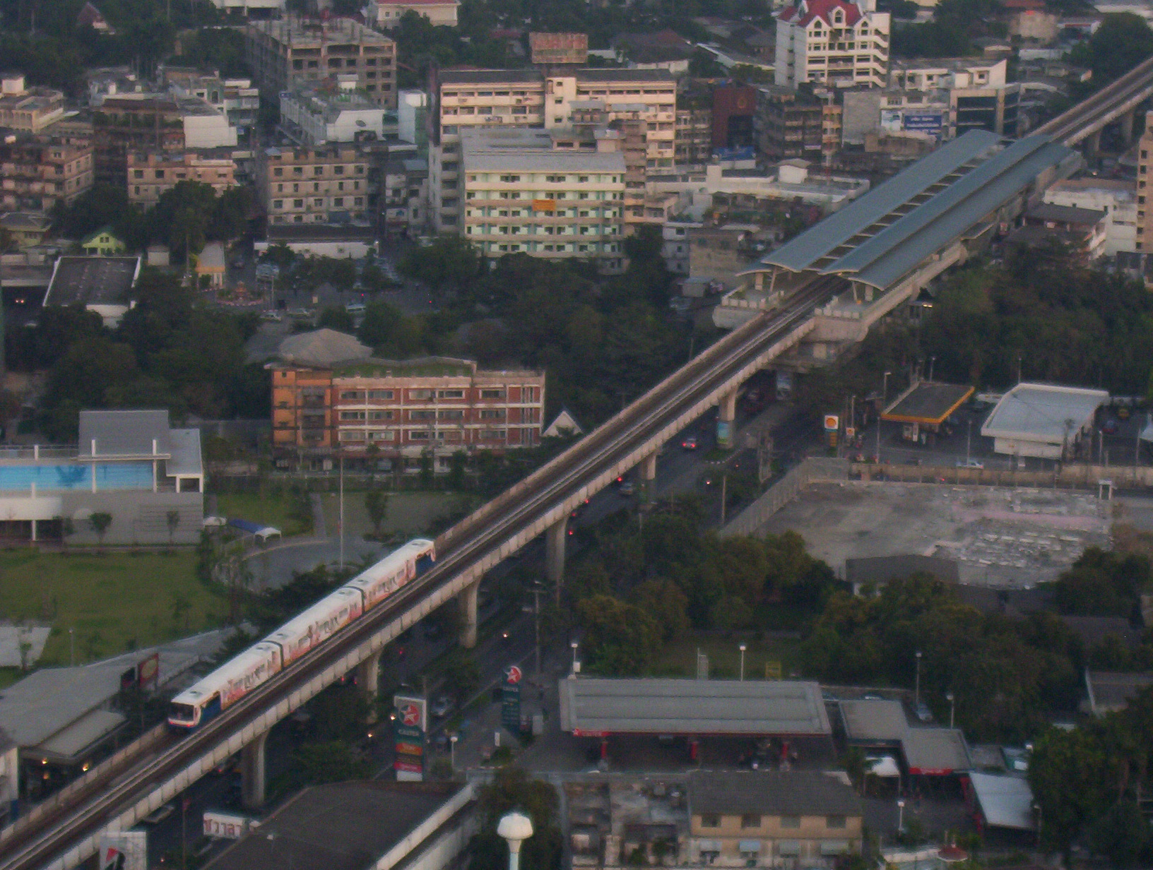 A close up as a train heads towards Thong Lo BTS.